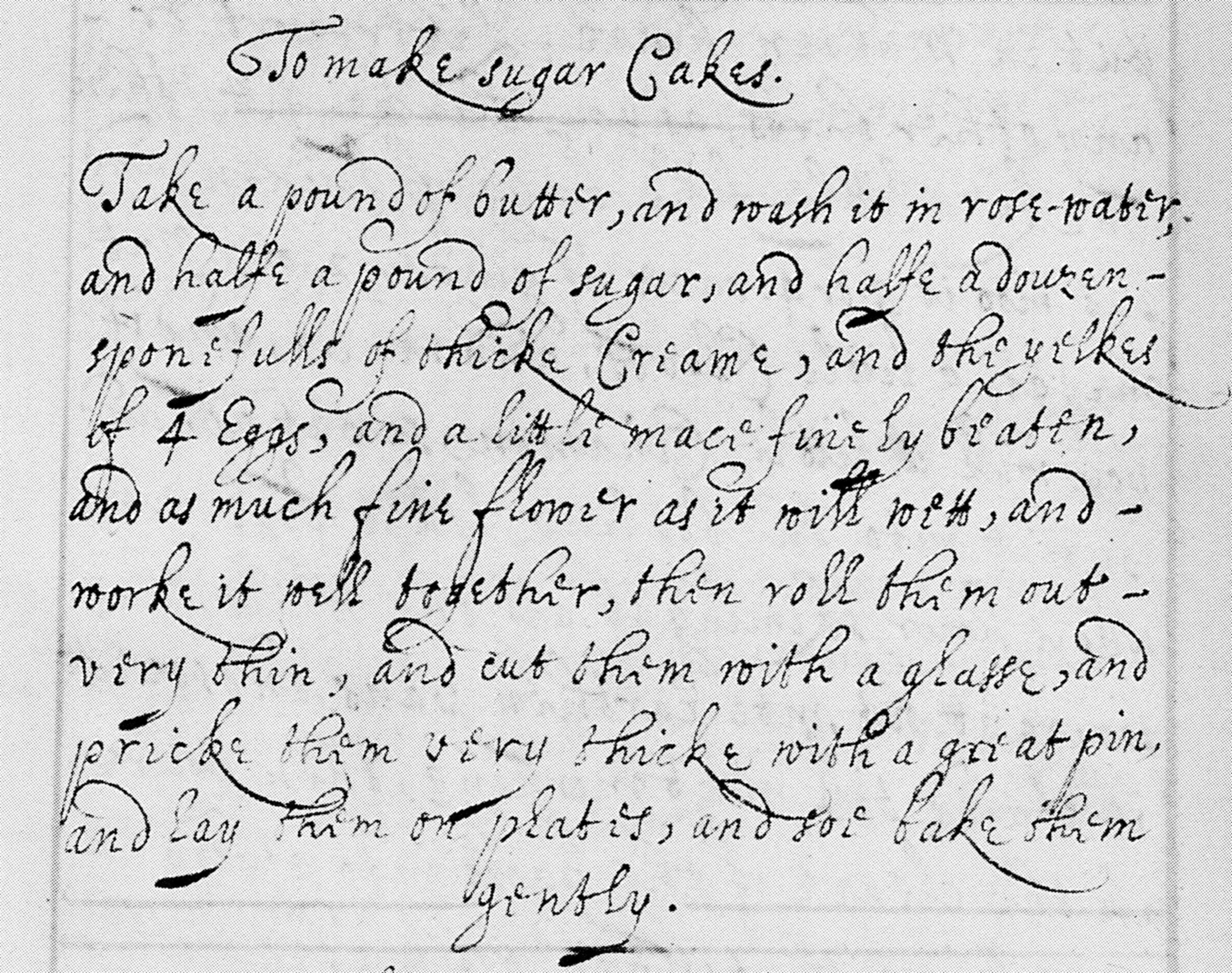 Recipe from a page of Mrs. Sarah Longe Her Receipt Booke (Folger Shakespeare Library)